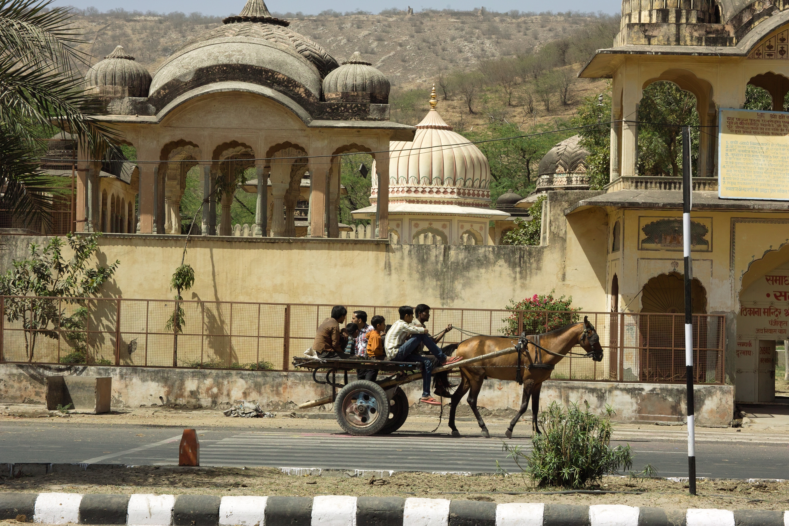 Compound of buildings northwest corner of Man Sagar Lake, Jaipur.